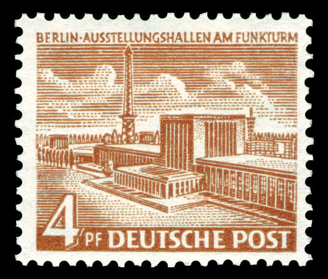 Definitive stamp series Buildings of Berlin (II)